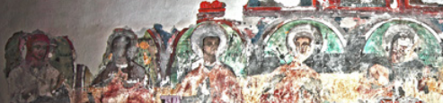 Saint_Nicholas_Church_in_Vladilovci.